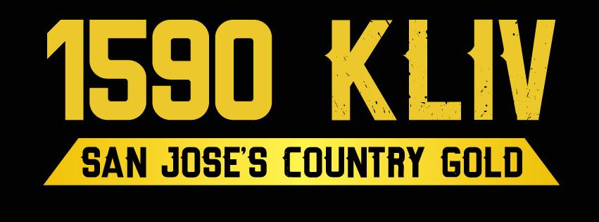 Logo for San Jose, California radio station KLIV revealed in June 2016 when the station changed from news to classic country.